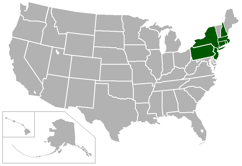 Derived from [1]; map of states with Ivy League schools